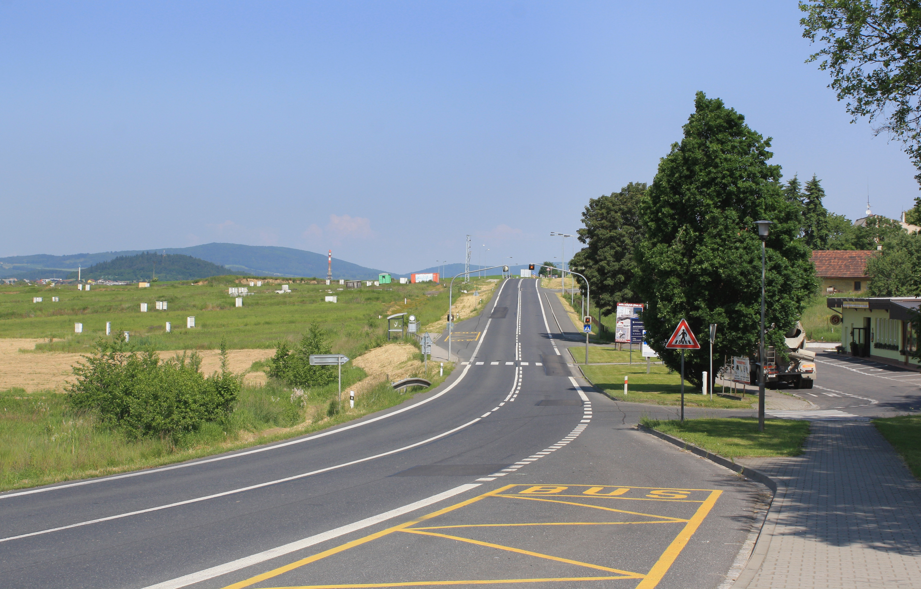 Road No. 22 in Sobětice, part of Klatovy, Czech Republic